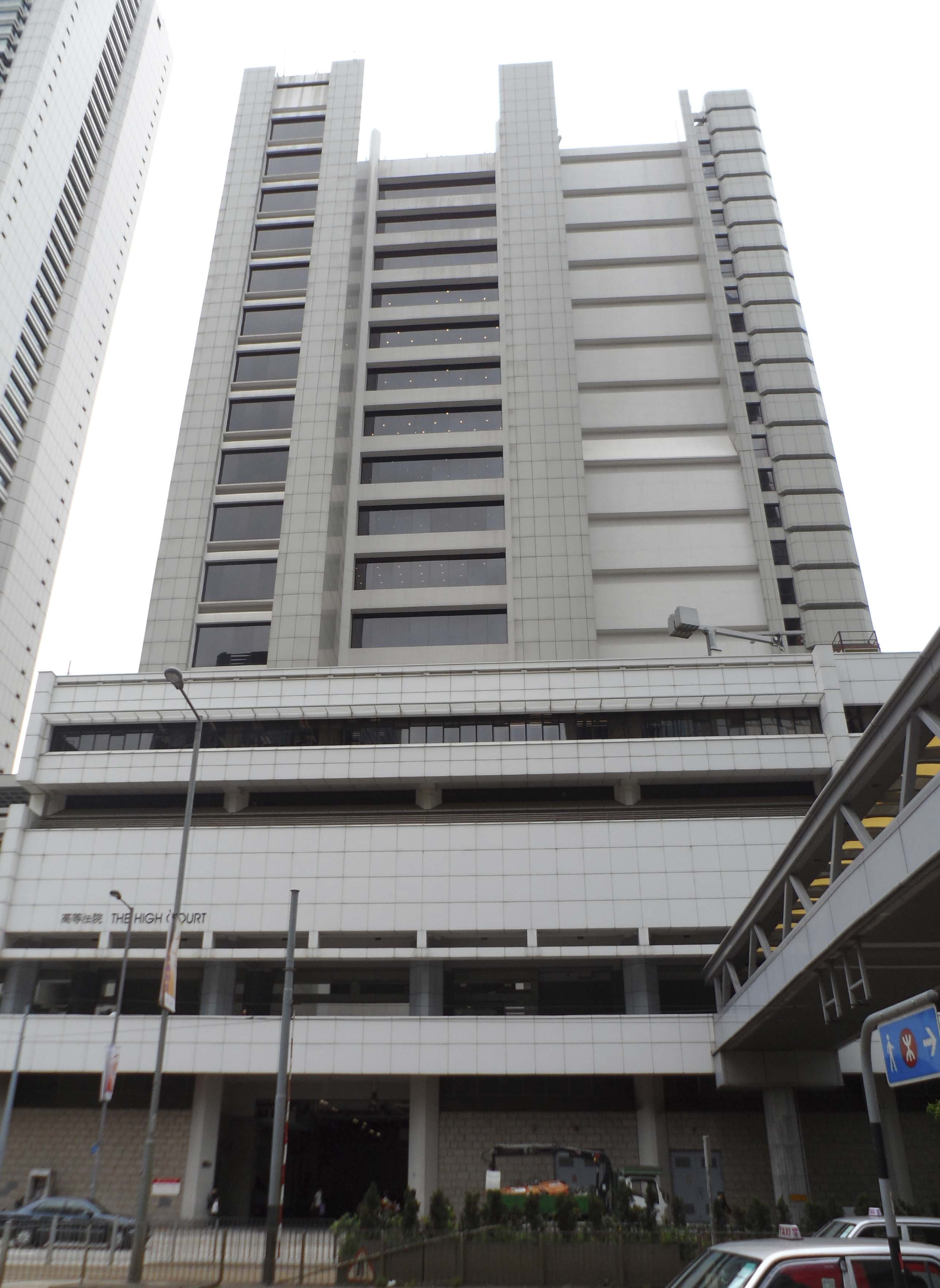 HK High Court